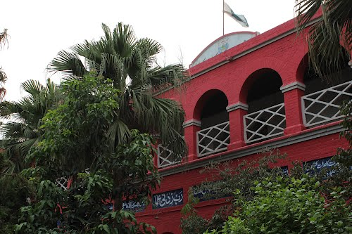 a close view of Main building of Govt Pilot Secondary School Phalia., which is U shaped.